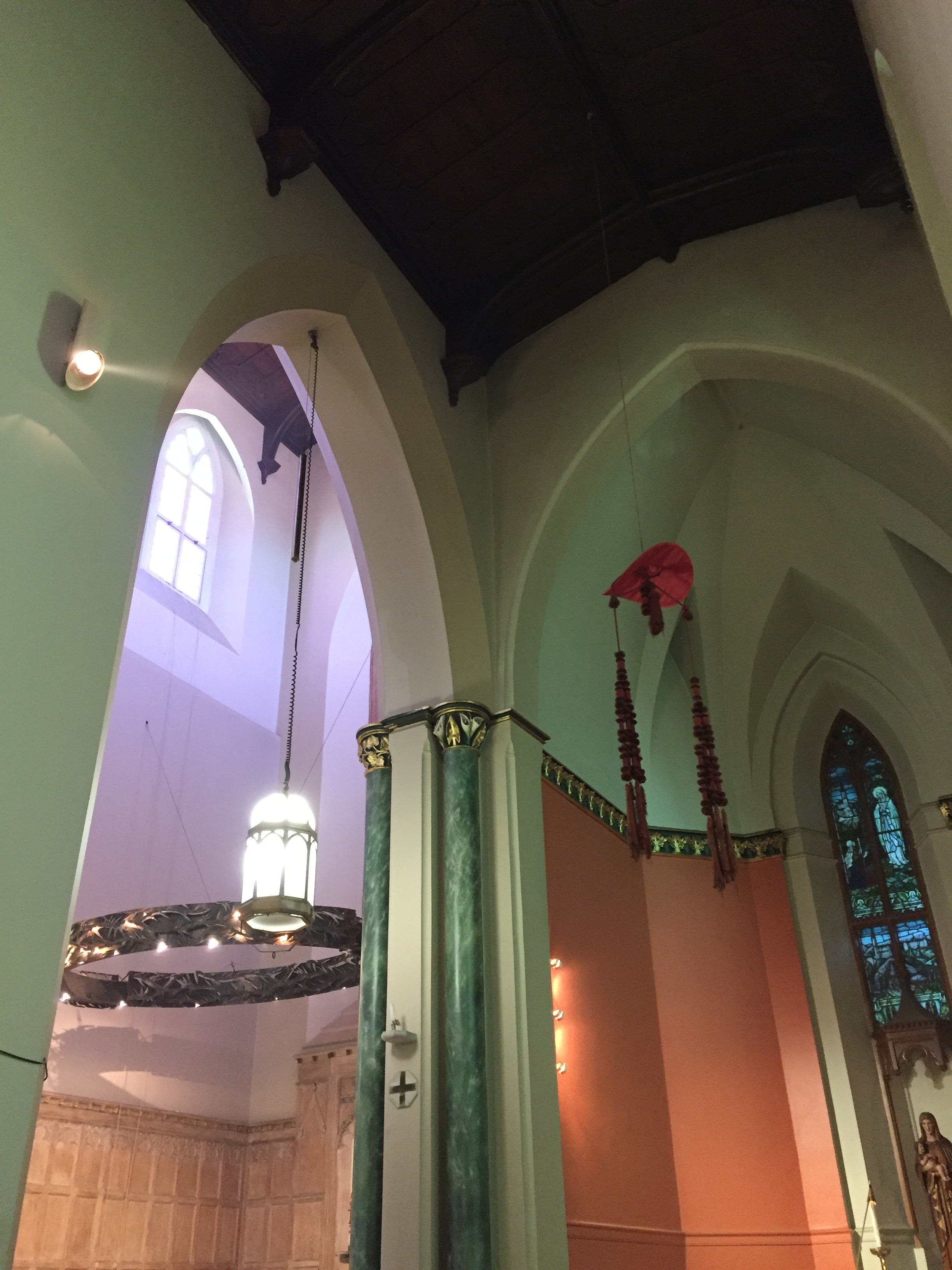 Galero hanging in the interior of St. Mary's Cathedral in Cape Town, South Africa in 2018